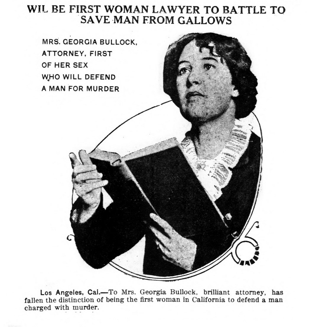 Georgia Bullock, first woman defense attorney for a murder case. (1914)